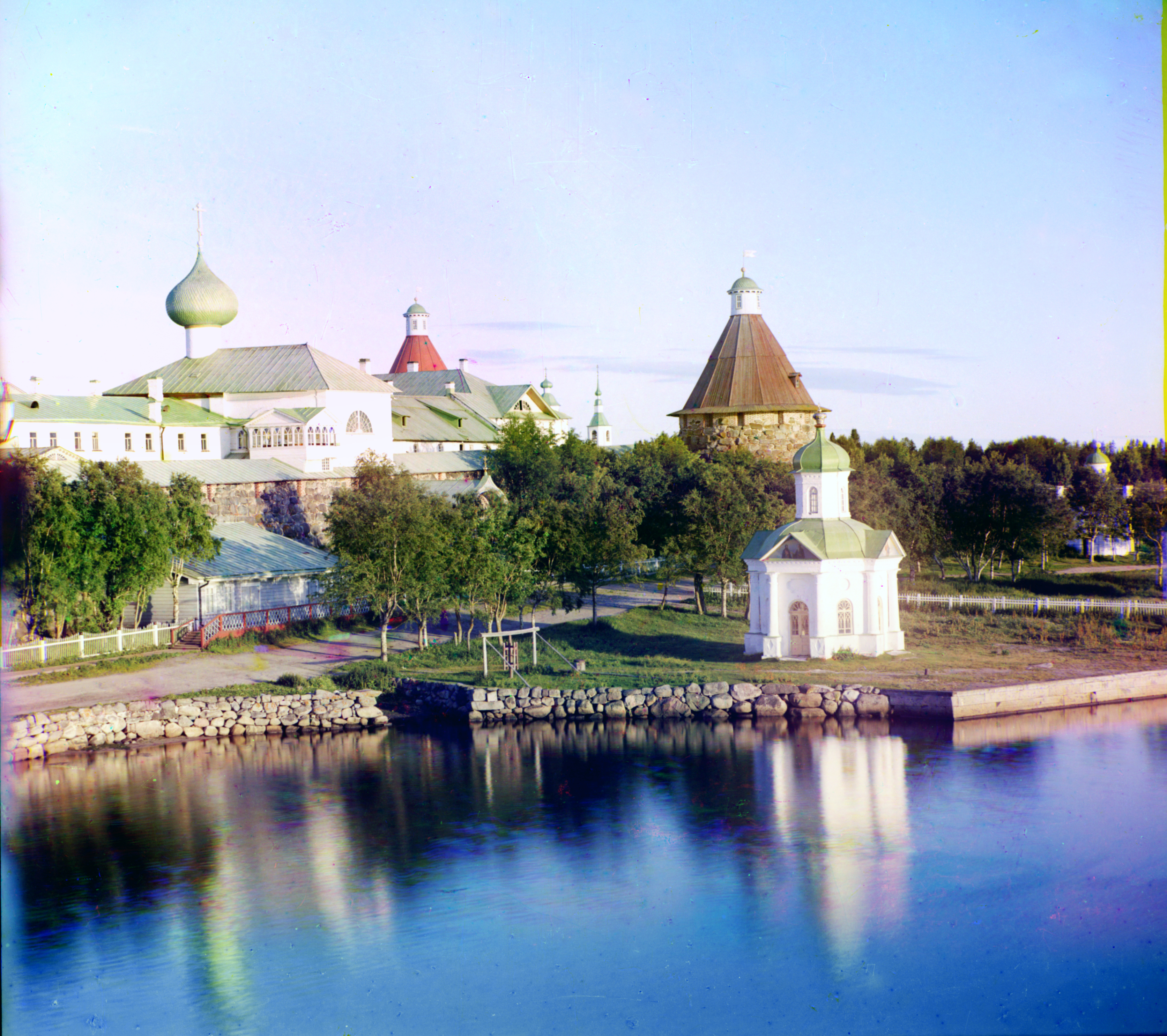 Vid na [Solovet︠s︡kiĭ] monastyrʹ iz gostinnit︠s︡y. [Solovet︠s︡kie ostrova]